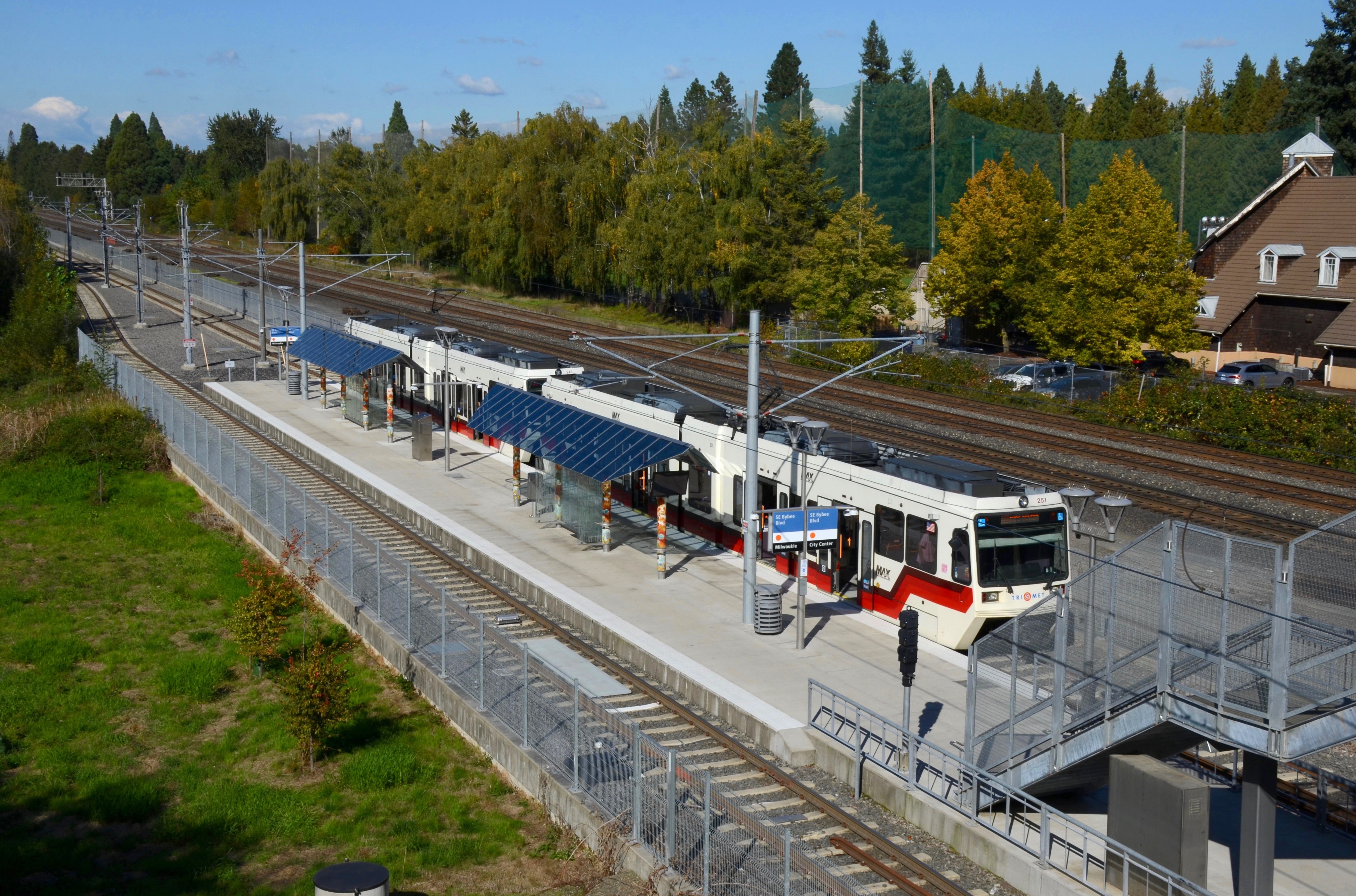 A northbound train at the SE Bybee Blvd. station on the MAX Orange Line, viewed from the southwest, from Bybee Bridge. This train is composed of two Type 2 cars, which are Siemens model SD660. In the background are Union Pacific tracks that are used by freight and passenger (Amtrak) trains.